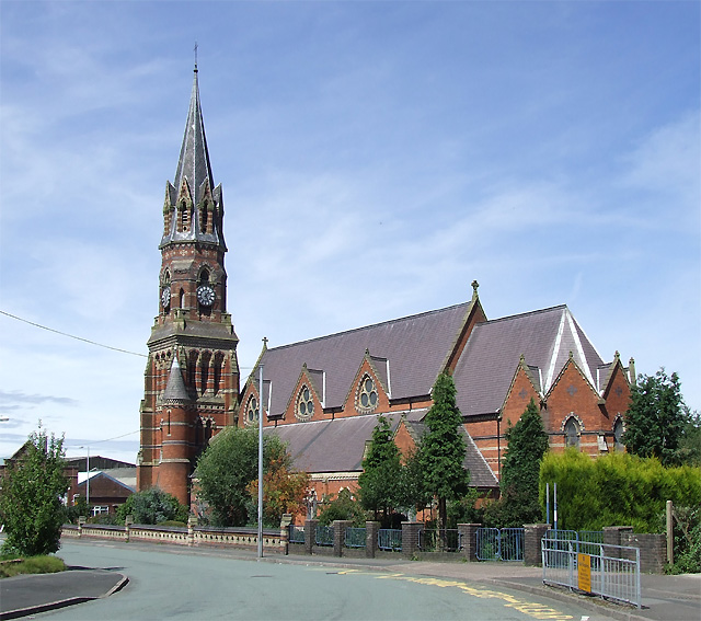 St Luke's parish church, Blakenhall, Wolverhampton, seen from the south